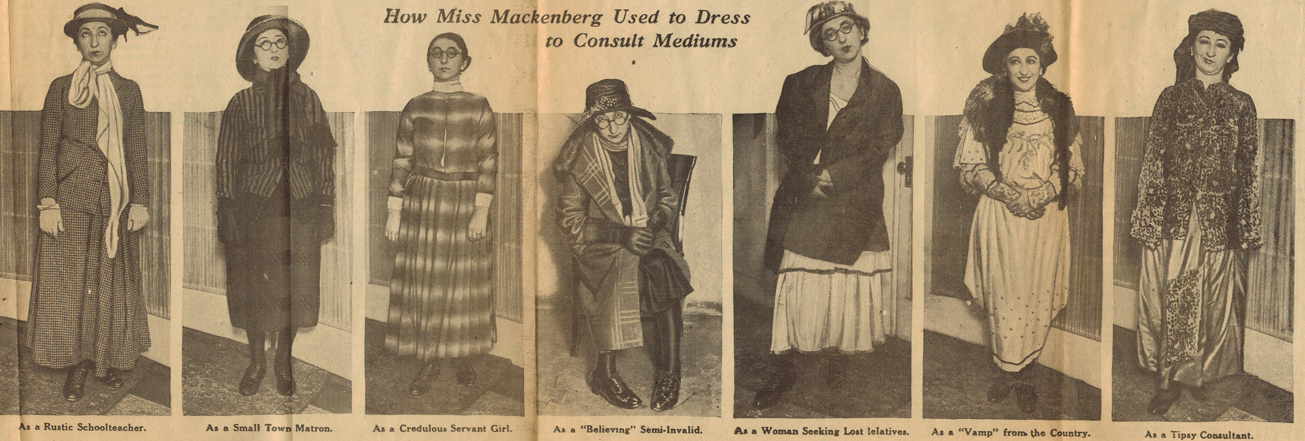 The skeptic Rose Mackenberg in séance disguises.